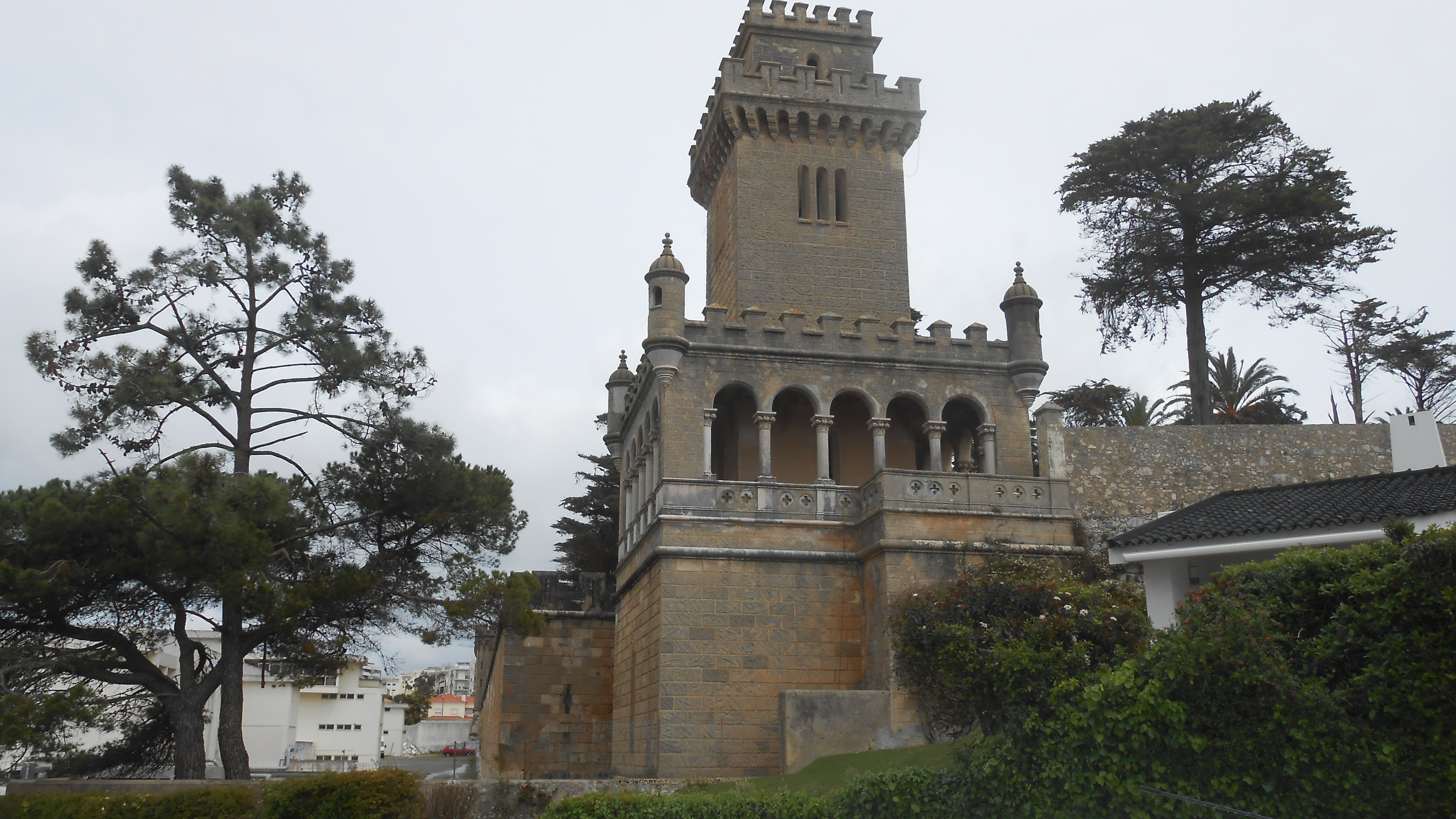 The observation tower at the edge of the garden, the third building of the Palácio Sotto Mayor in Figueira da Foz.